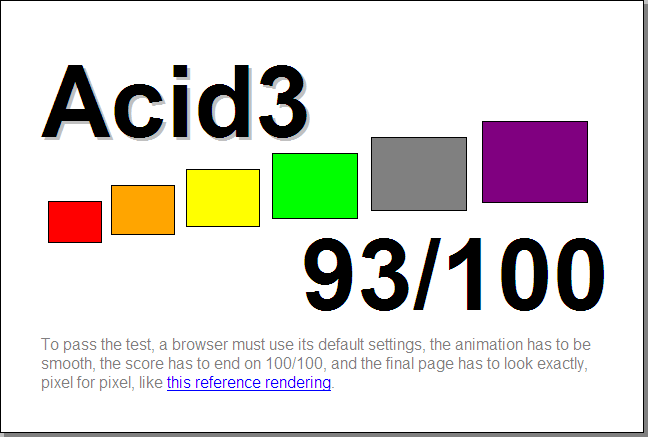 This is the result of running the Acid3 test on Firefox 3.5.